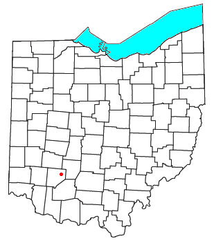 Locator map of the unincorporated community of Reesville in Clinton County, Ohio, United States.